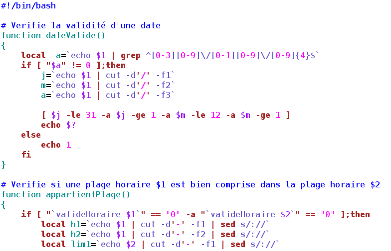 Example of a source code written in bash (highlighting of gvim).